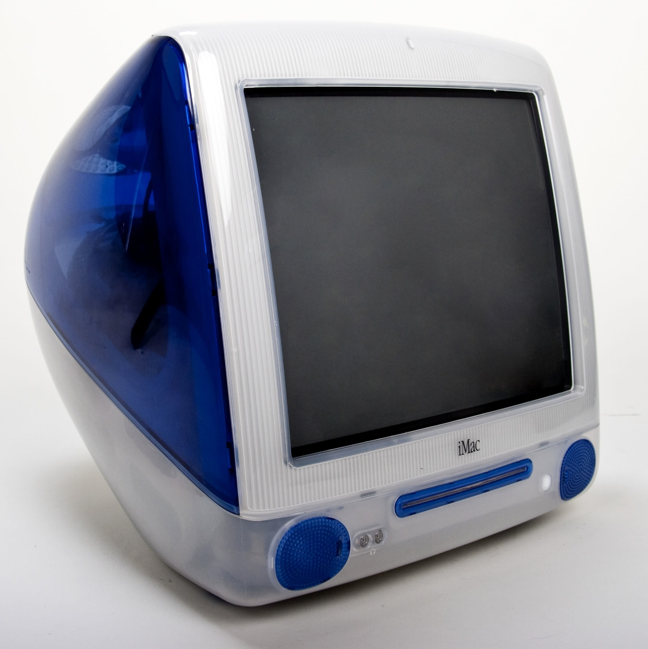 iMac G3 500MHz (2001) slot-load front view. Good Design Award 1999.